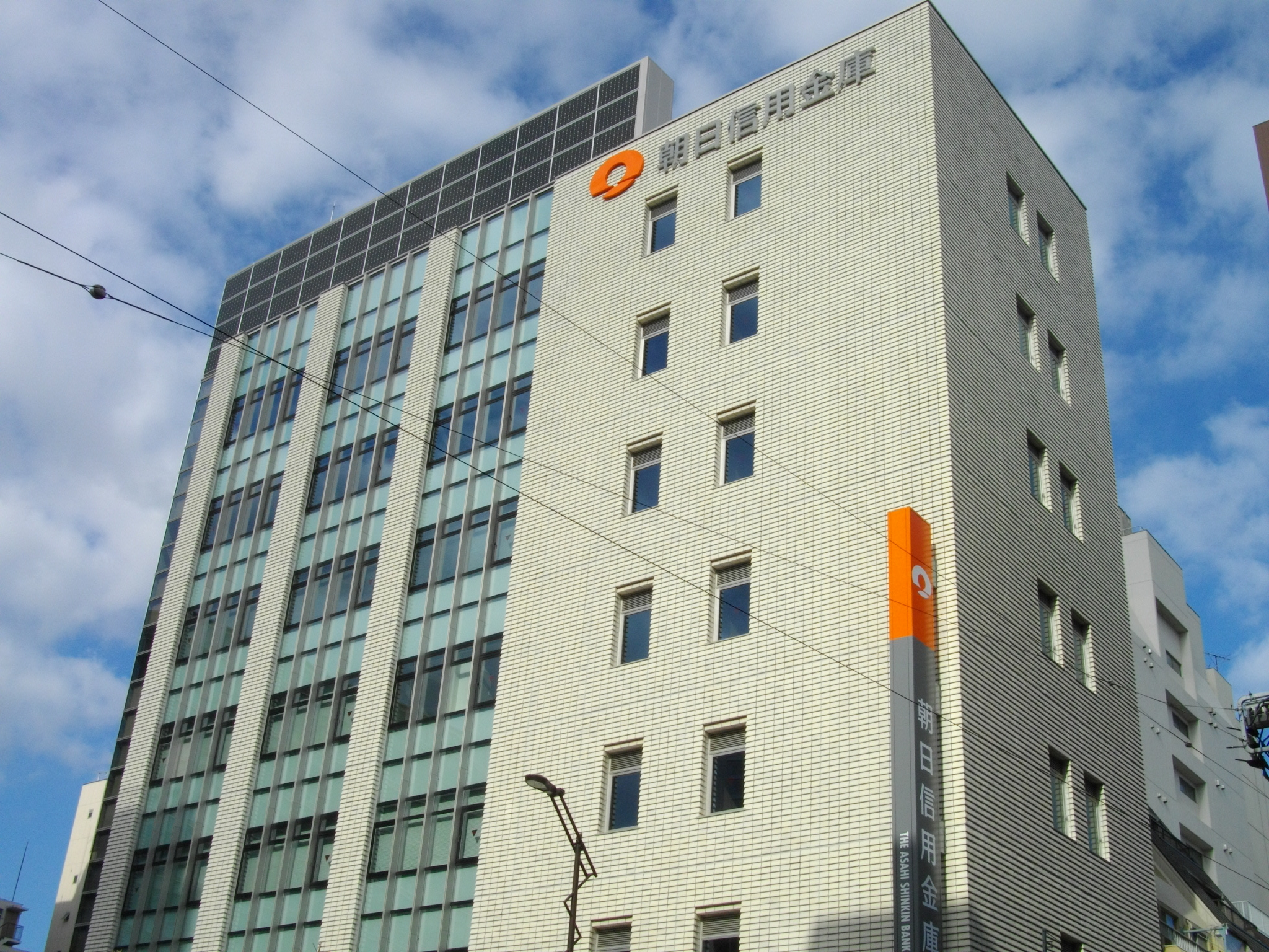 Asahi Shinkin Bank Head Office